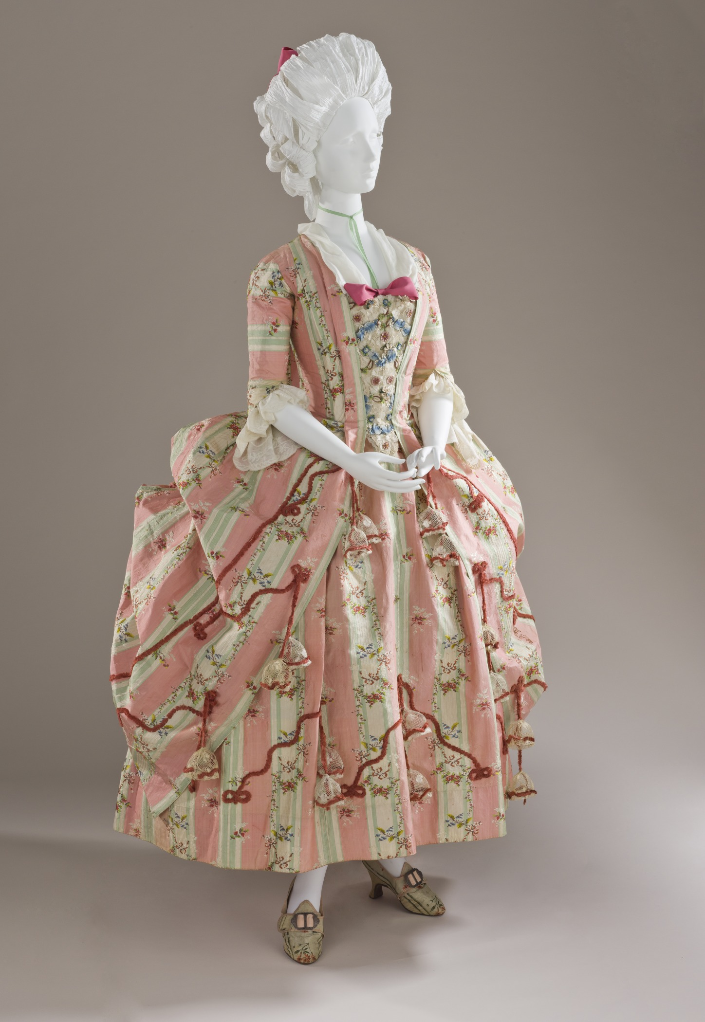 Spain; Textile- France, circa 1775 Costumes Silk Purchased with funds provided by Suzanne A. Saperstein and Michael and Ellen Michelson, with additional funding from the Costume Council, the Edgerton Foundation, Gail and Gerald Oppenheimer, Maureen H. Shapiro, Grace Tsao, and Lenore and Richard Wayne (M.2007.211.720a-b) Costume and Textiles